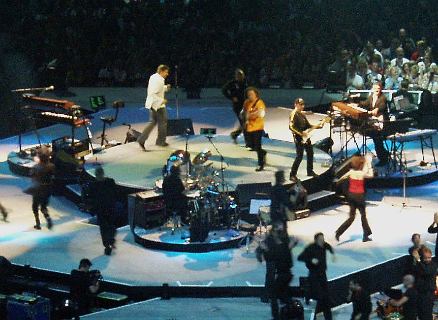 The German rockband "Pur" in "Arena AufSchalke"